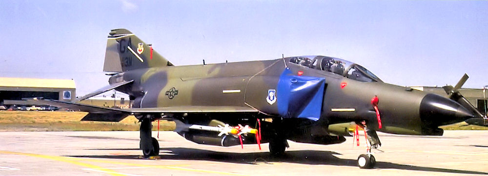 McDonnell Douglas F-4E-35-MC Phantom 67-0311 21st Tactical Fighter Training Squadron, 1987. A/C sent to AMARC AMARC as FP0296 Aug 30, 1989.